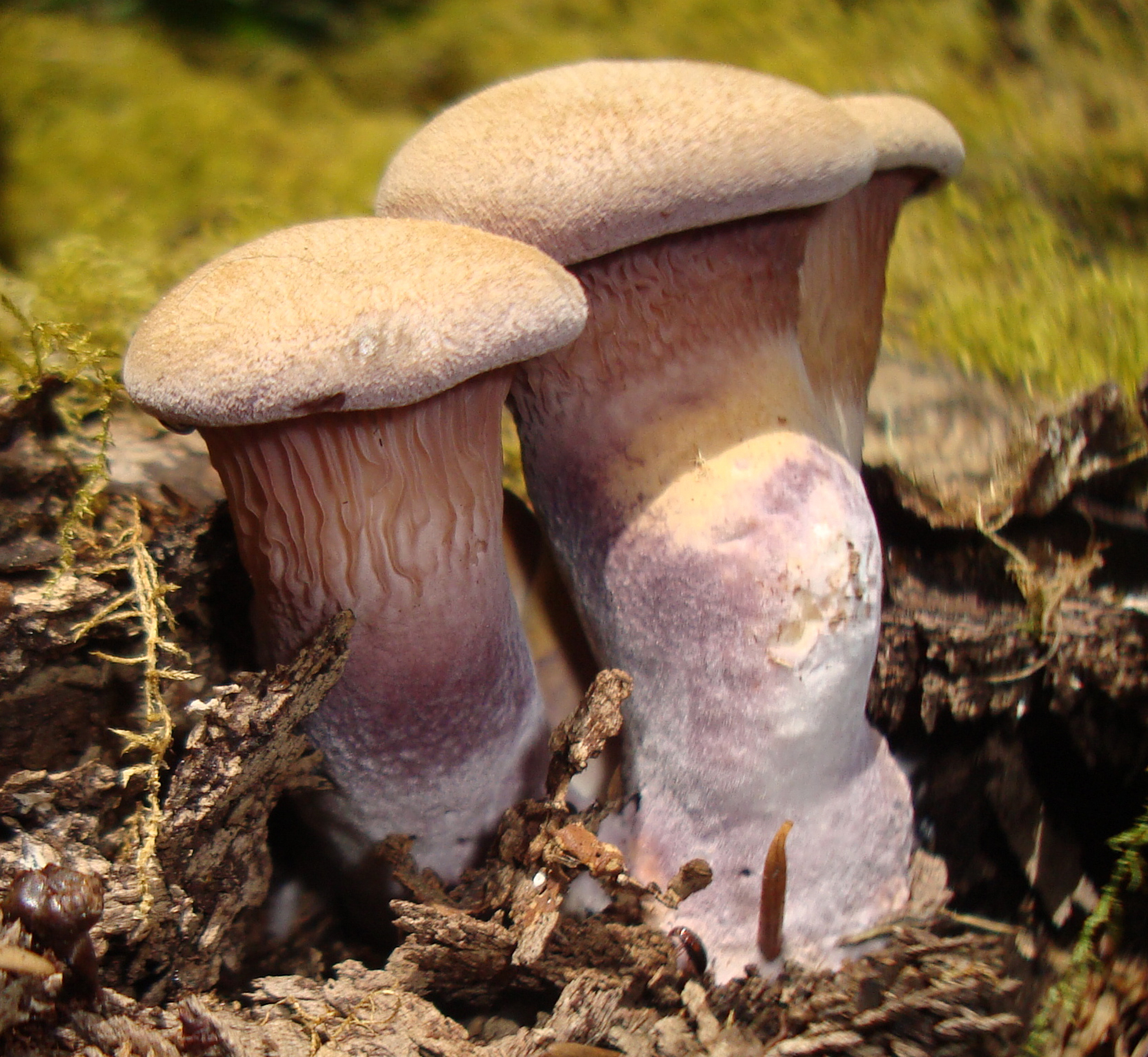 The mushroom Panus conchatus (Bull.) Fr. Photographed in Russian Gulch State Park, Mendocino Co., California, USA. Notes: "Growing on a fallen alder log, in a small cluster"